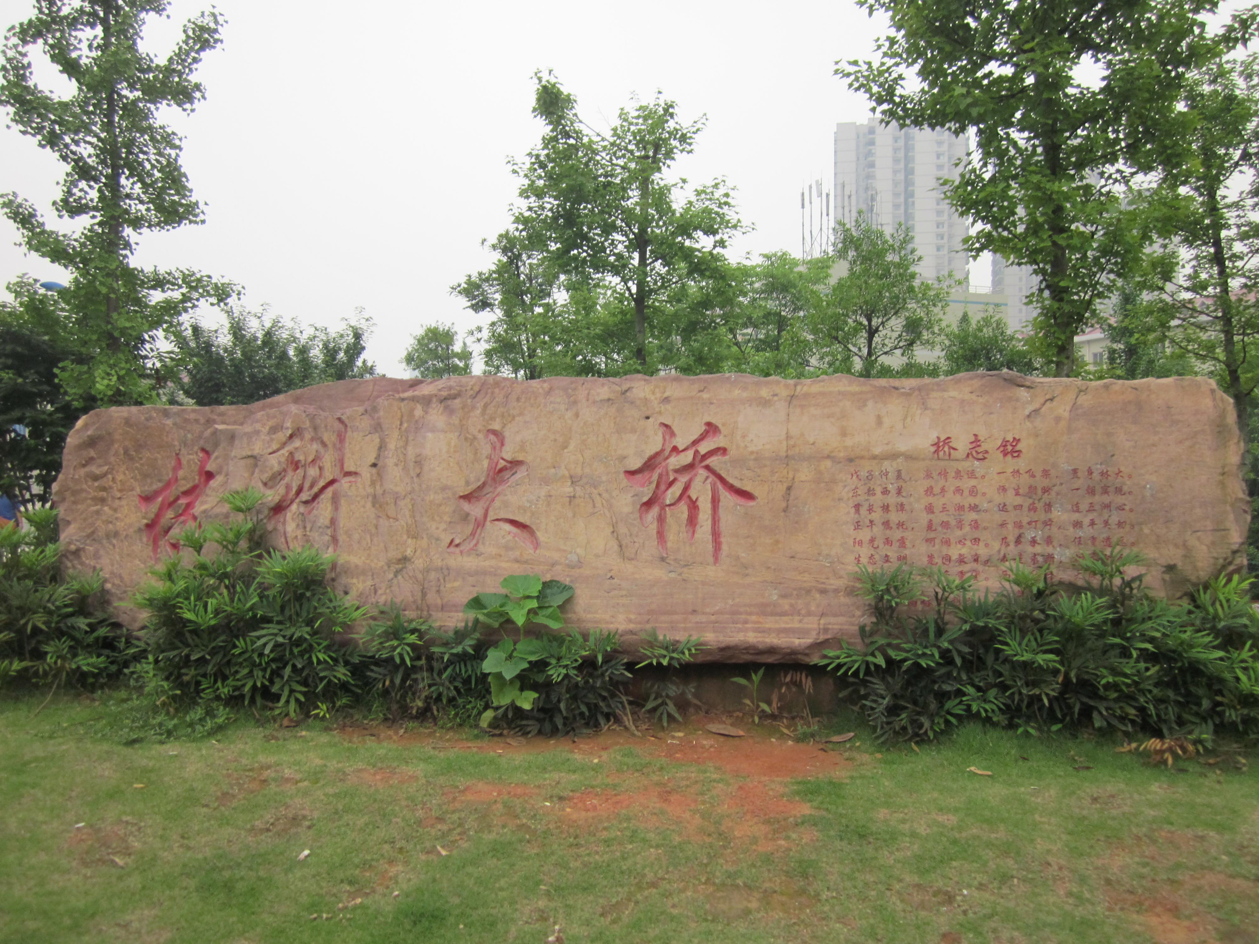 The bridge of Central South University of Forestry and Technology.